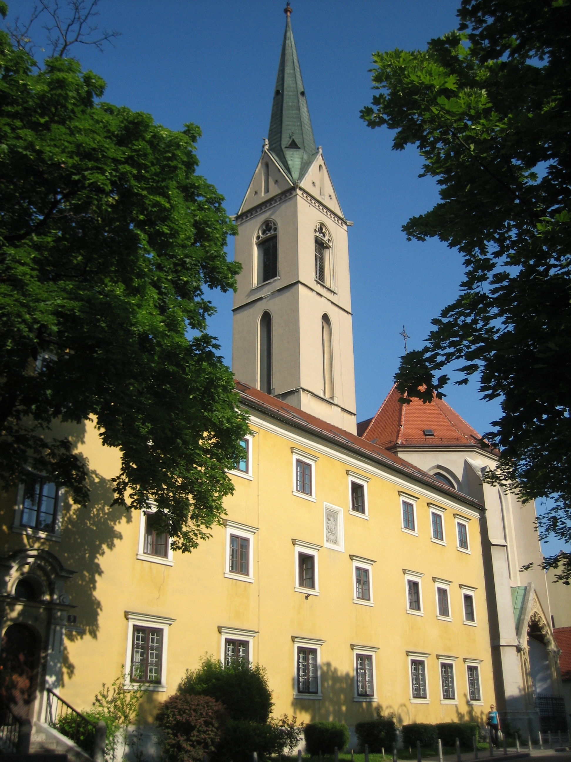 St. Francis church and monastery of the franciscans in Zagreb, Croatia.